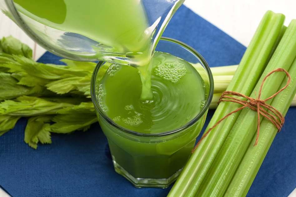 Green vegetable juice with celery stalk